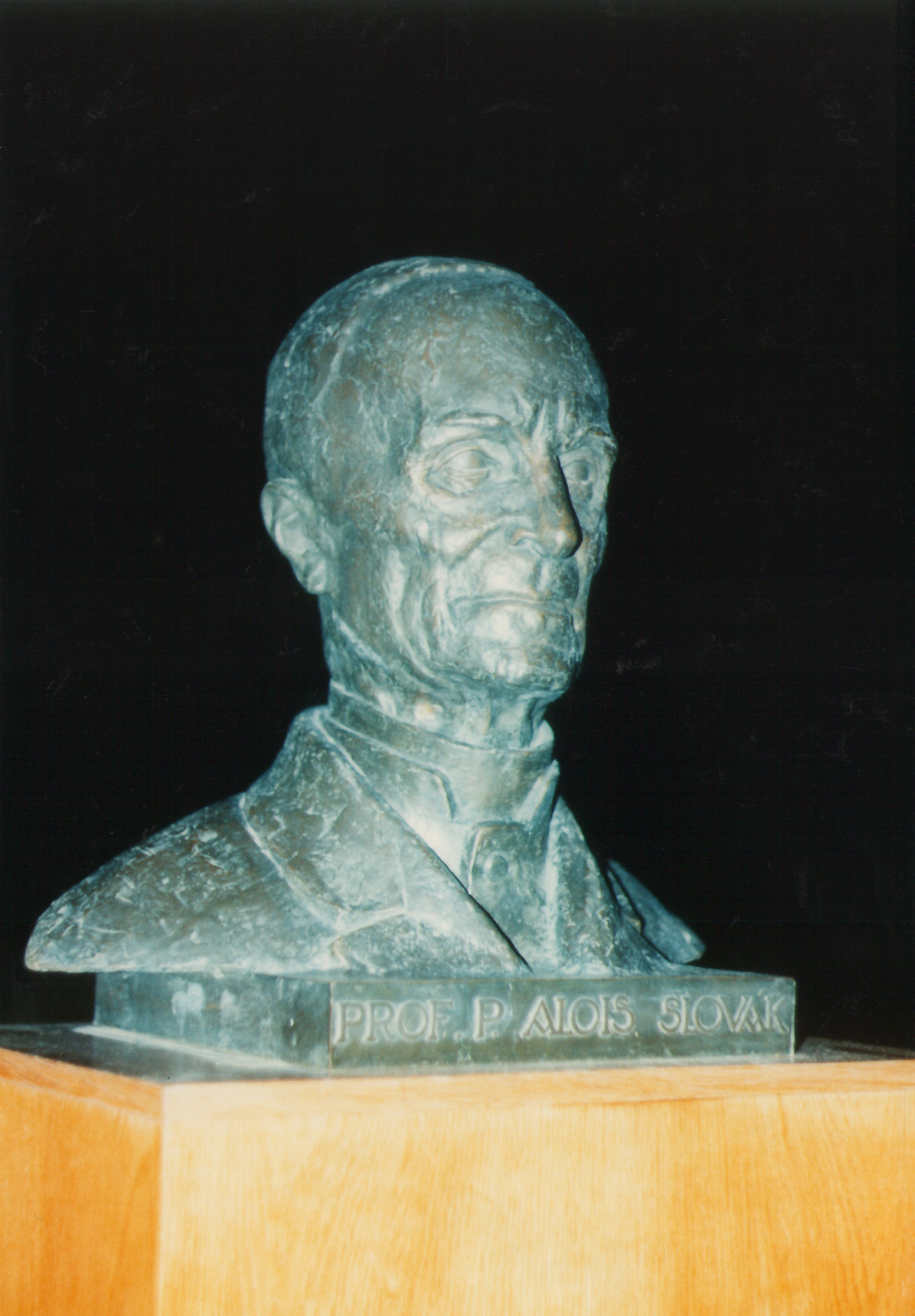 Bust of Moravian priest and teacher Alois Slovák, initiator of the Monument of Peace at the battlefield of Austerlitz.